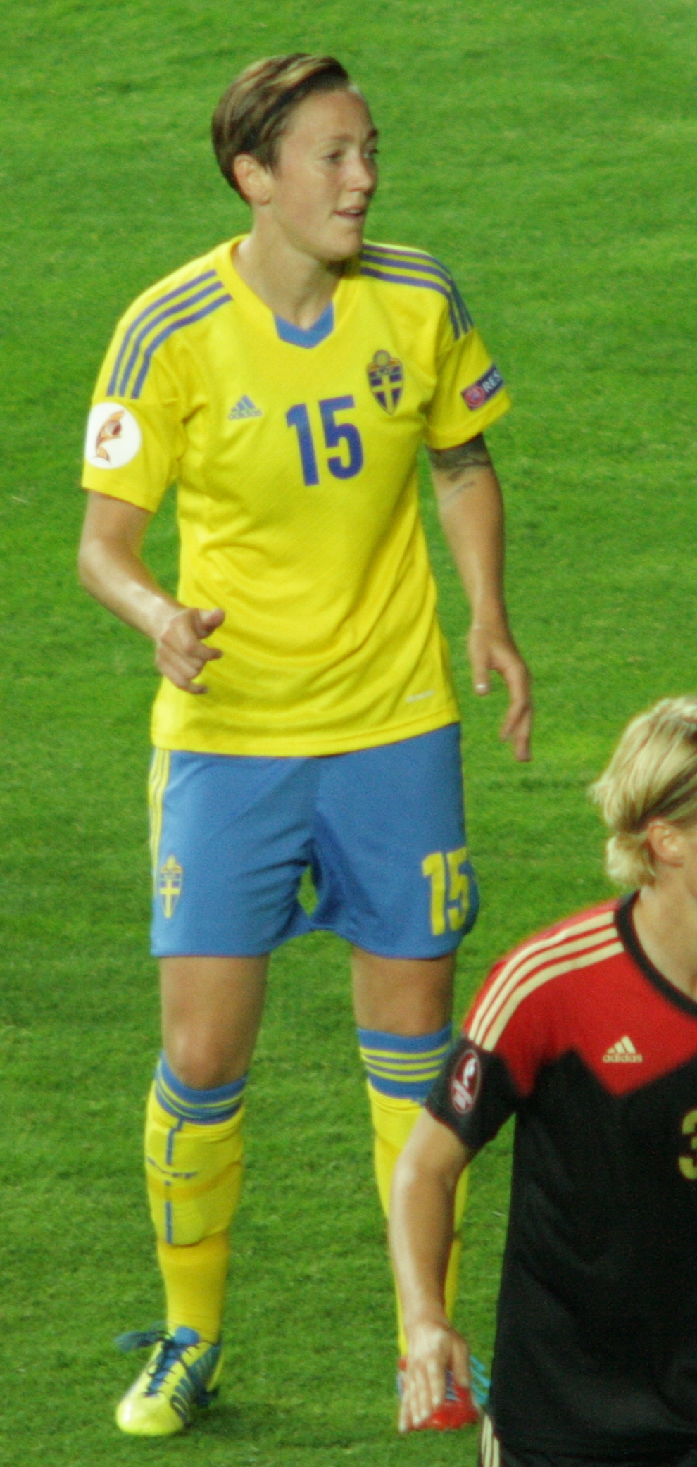 Therese Sjögran